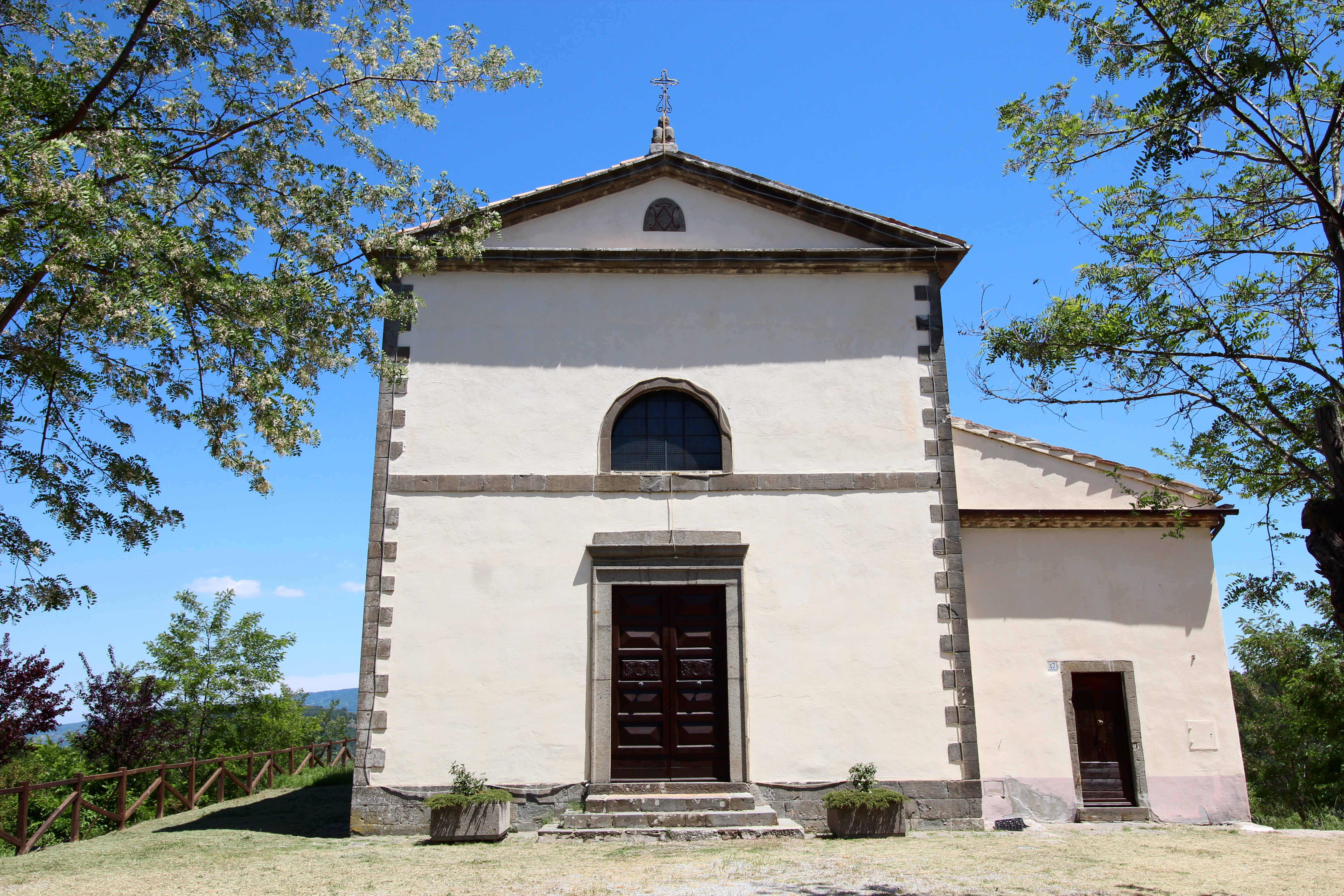 Sanctuary Santuario della Madonna di Val di Prata, outside the historical center of Monticello Amiata, hamlet of Cinigiano, Province of Grosseto, Tuscany, Italy